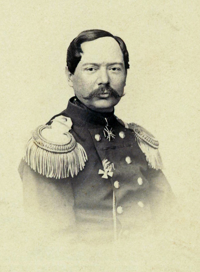 Photo of Ivan Ivanovich Zavadovsky. Khloponin photo studio. Odessa